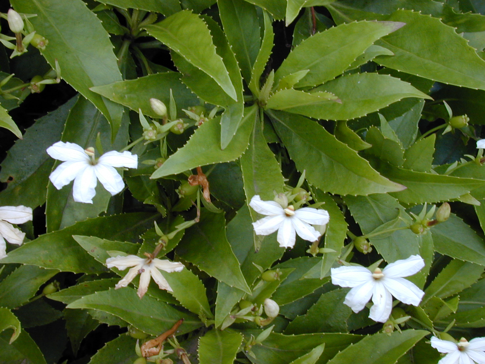 Scaevola chamissoniana (flowers). Location: Maui, Waihee Ridge Trail